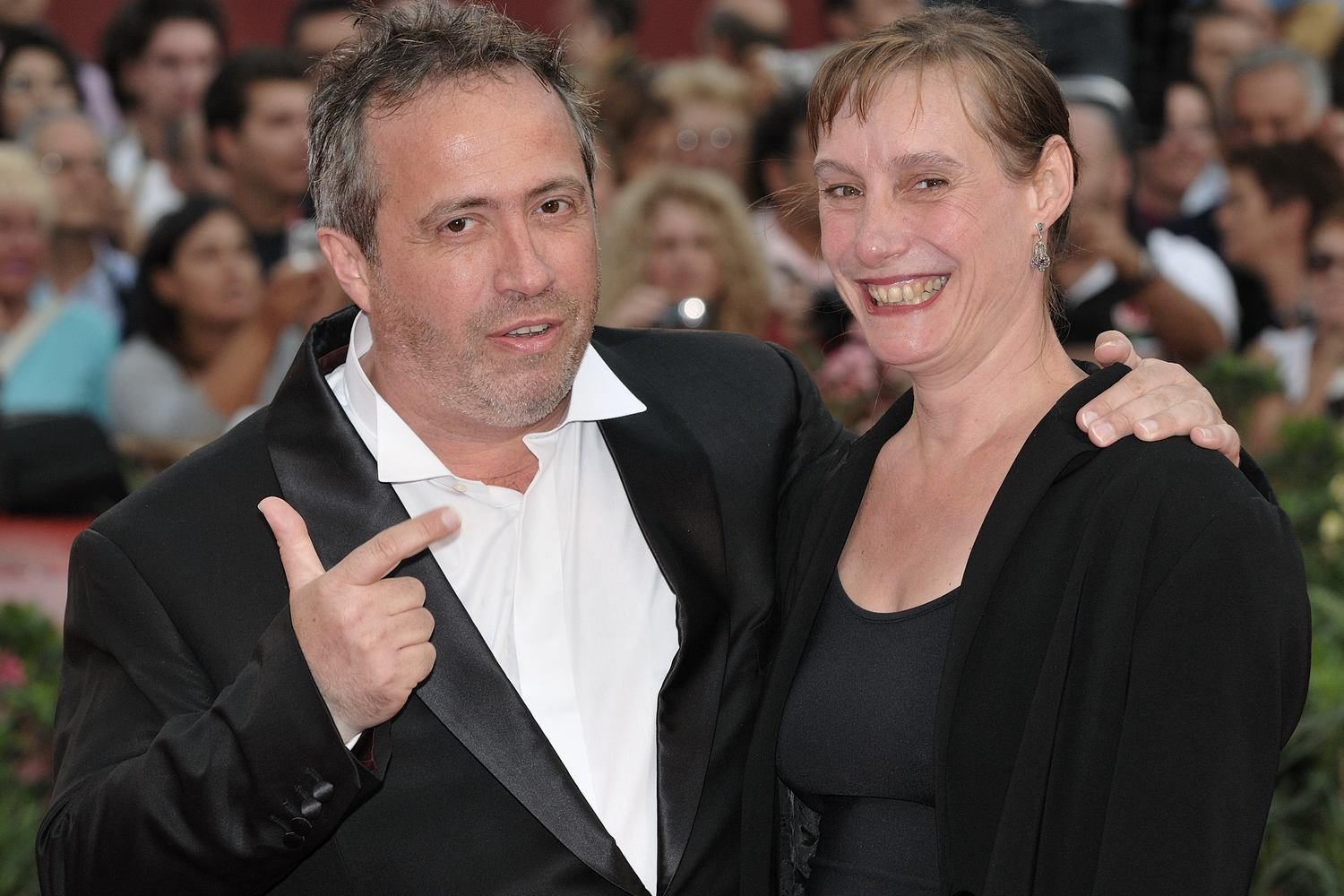 Jaco Van Dormel at the 66th Venice International Film Festival.